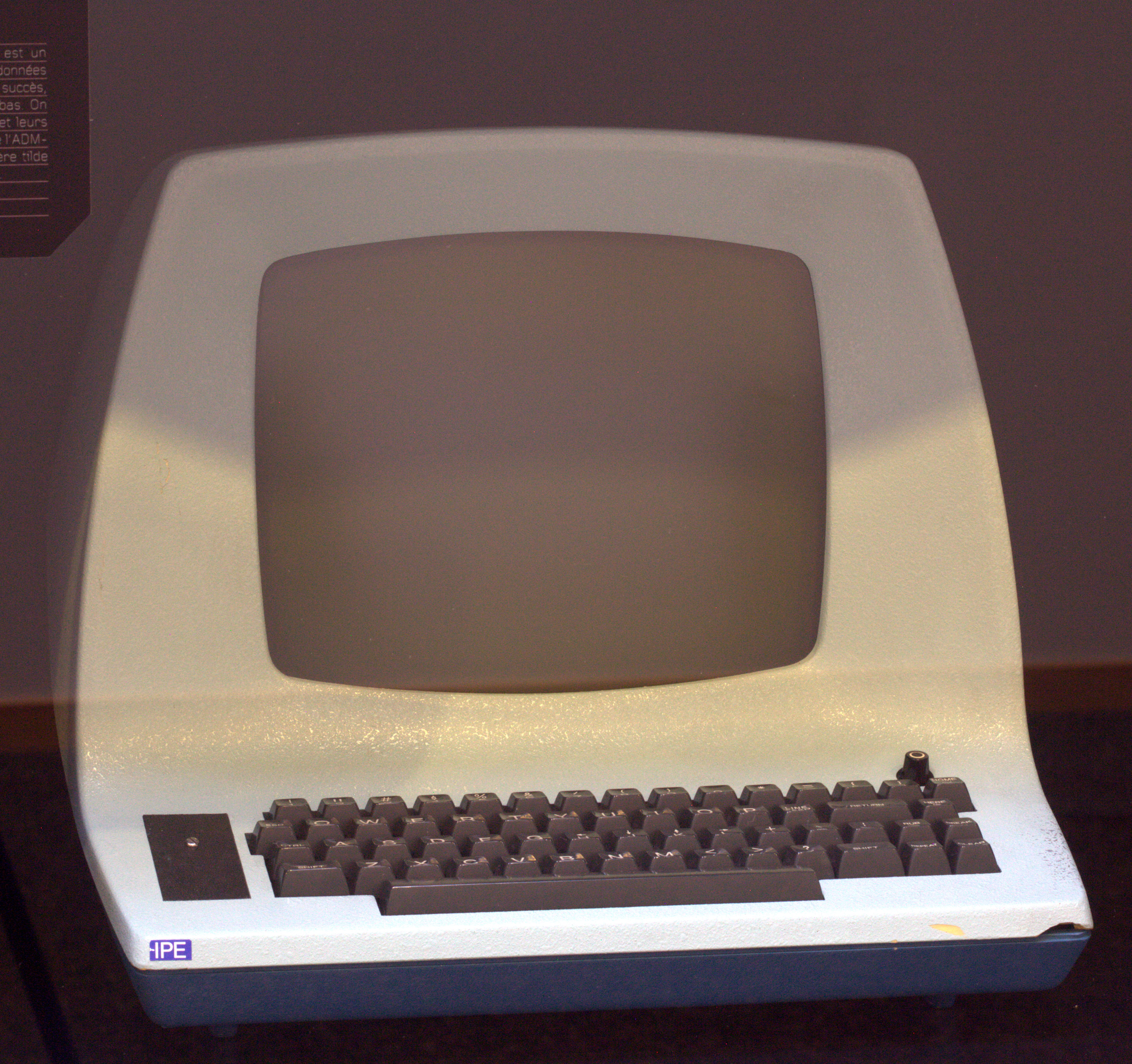 ADM-3A. On display at the Musée Bolo, EPFL, Lausanne. The making of this document was supported by Wikimedia CH.(Submit your project!) For all the files concerned, please see the category Supported by Wikimedia CH.